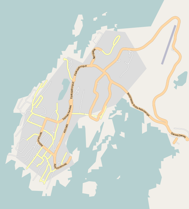 Map of Nuuk Geographic limits of the map: N: 64.2021° S: 64.1593° W: -51.756° E: -51.6671°